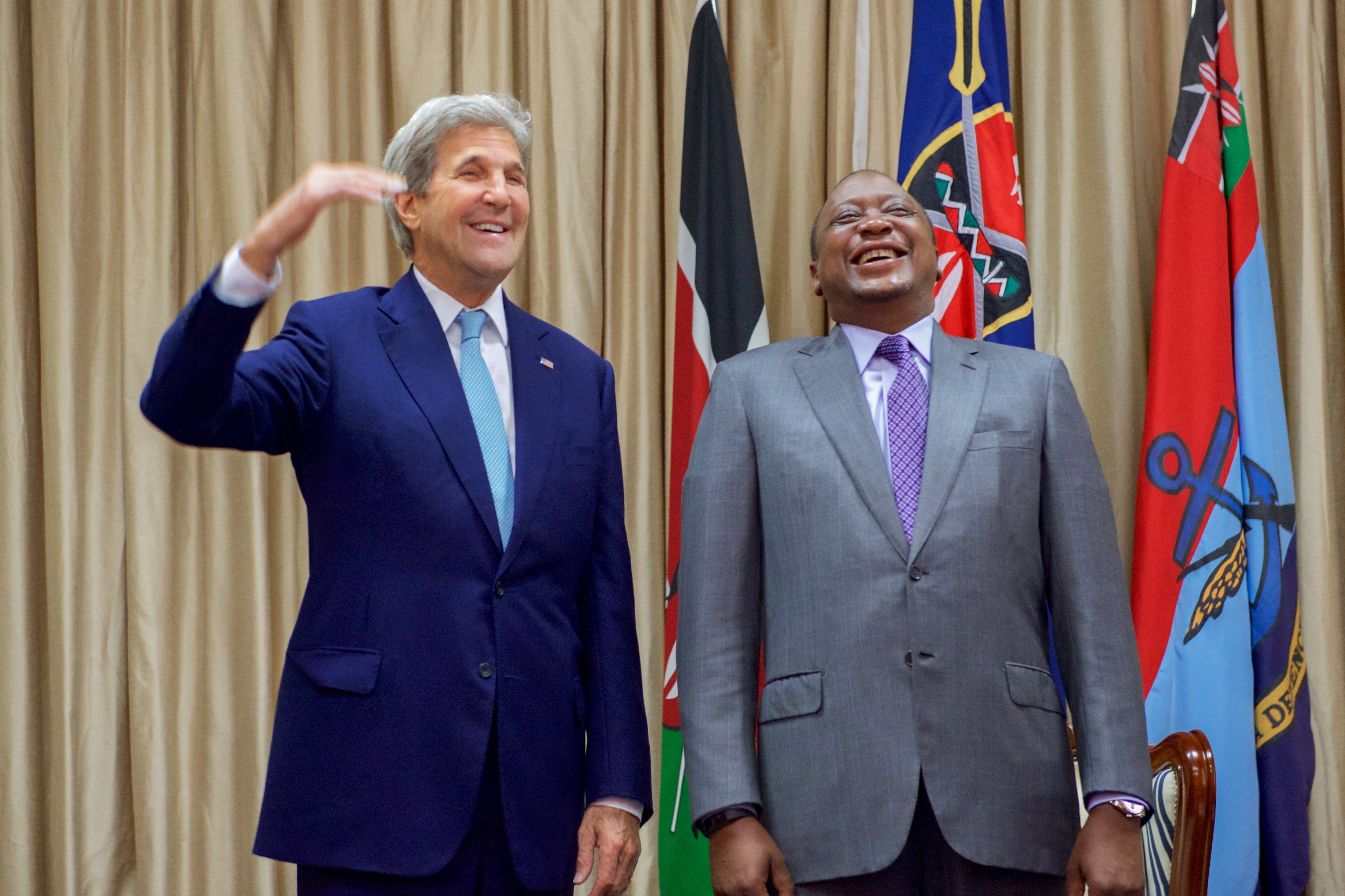 U.S. Secretary of State John Kerry jokes about his height stands with Kenyan President Uhuru Kenyatta on August 22, 2016, at State House in Nairobi, Kenya, before a bilateral meeting. [State Department Photo/ Public Domain]